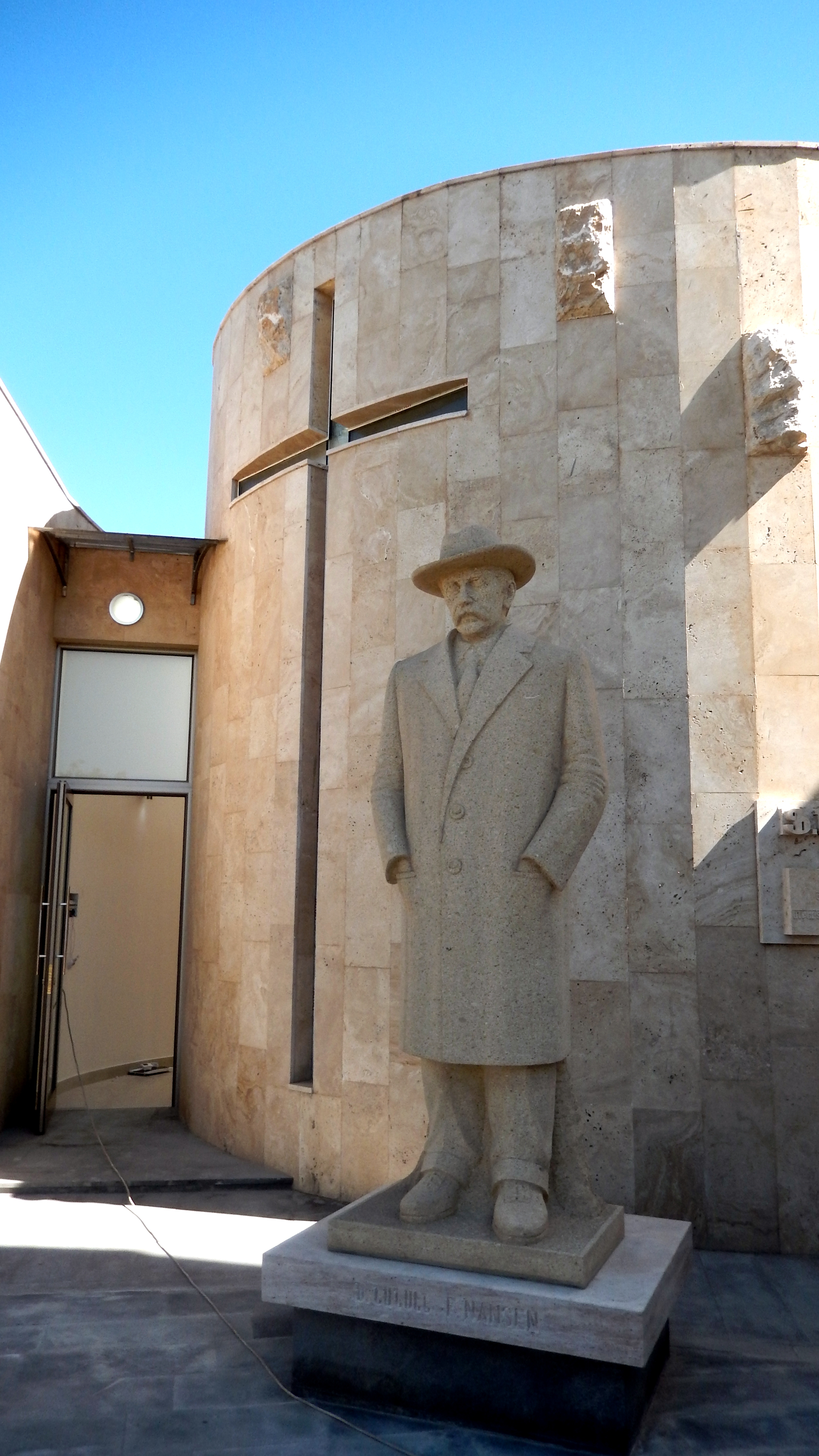 St. Mary's Church. - Nansen Park, Nor Nork 1st Microdistrict, Yerevan